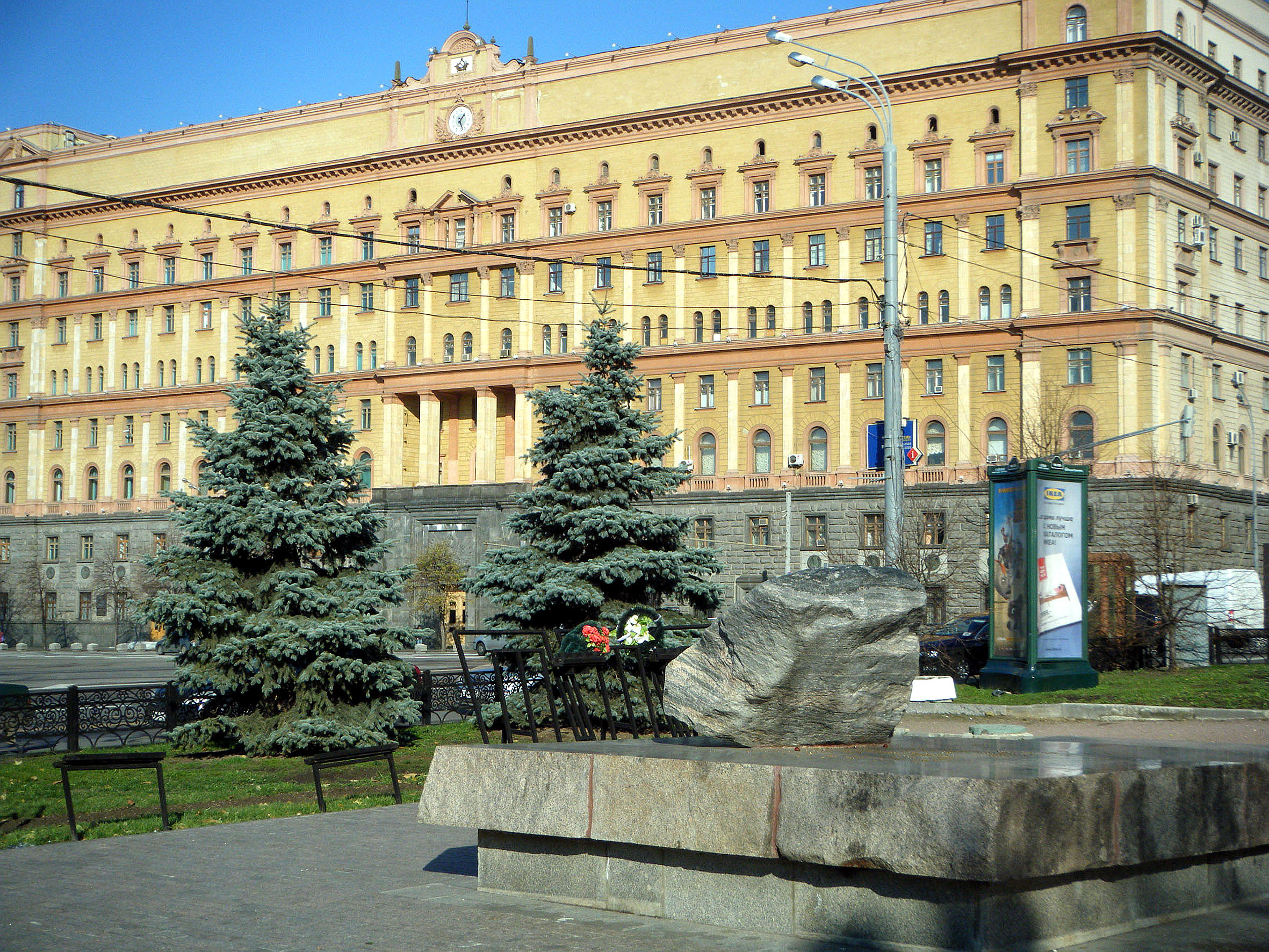 Solovetsky stone in Moscow, with Lubyanka building in background